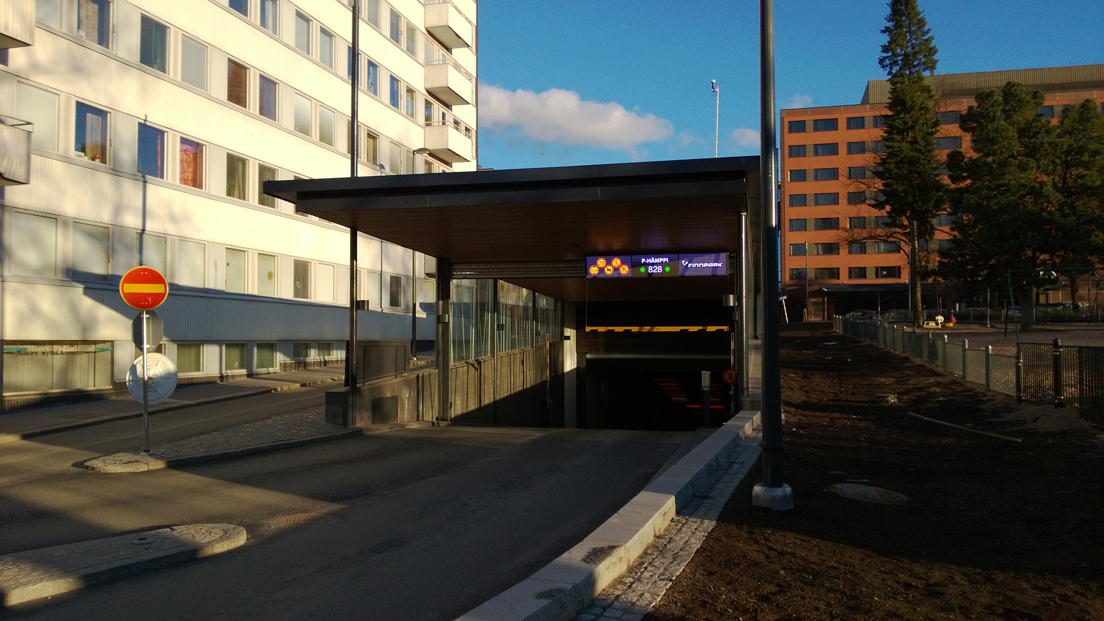 Entrance (named as Ronganramppi) to large underground P-Hämppi carparking house, under Hämeenkatu in Tampere, Finland.